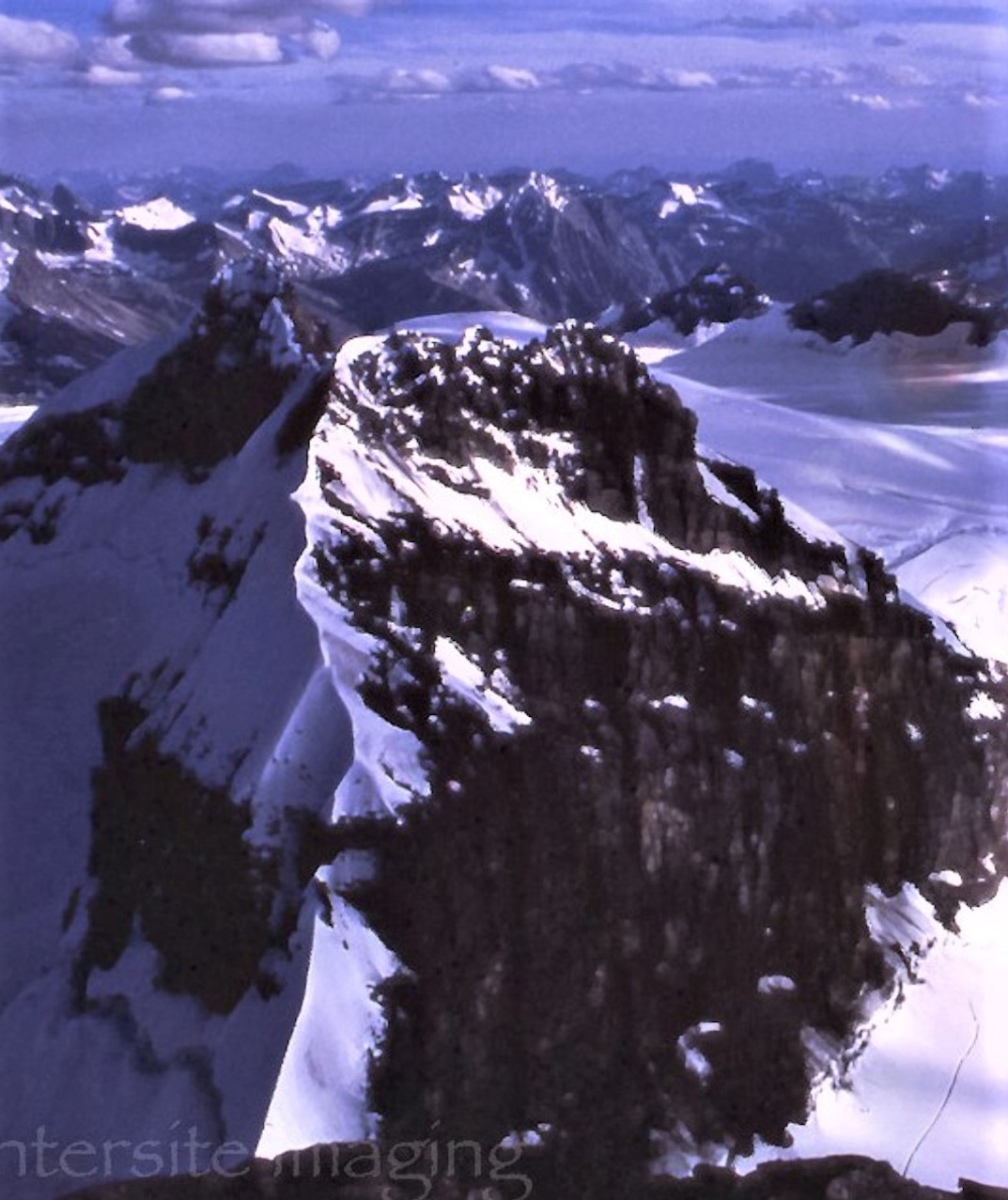 From Mt. Lyell 3 (Ernest Peak) looking at Lyell 4 (Walter Peak). Mt. Lyell 5 (Christian Peak) is also visible just behind L4.